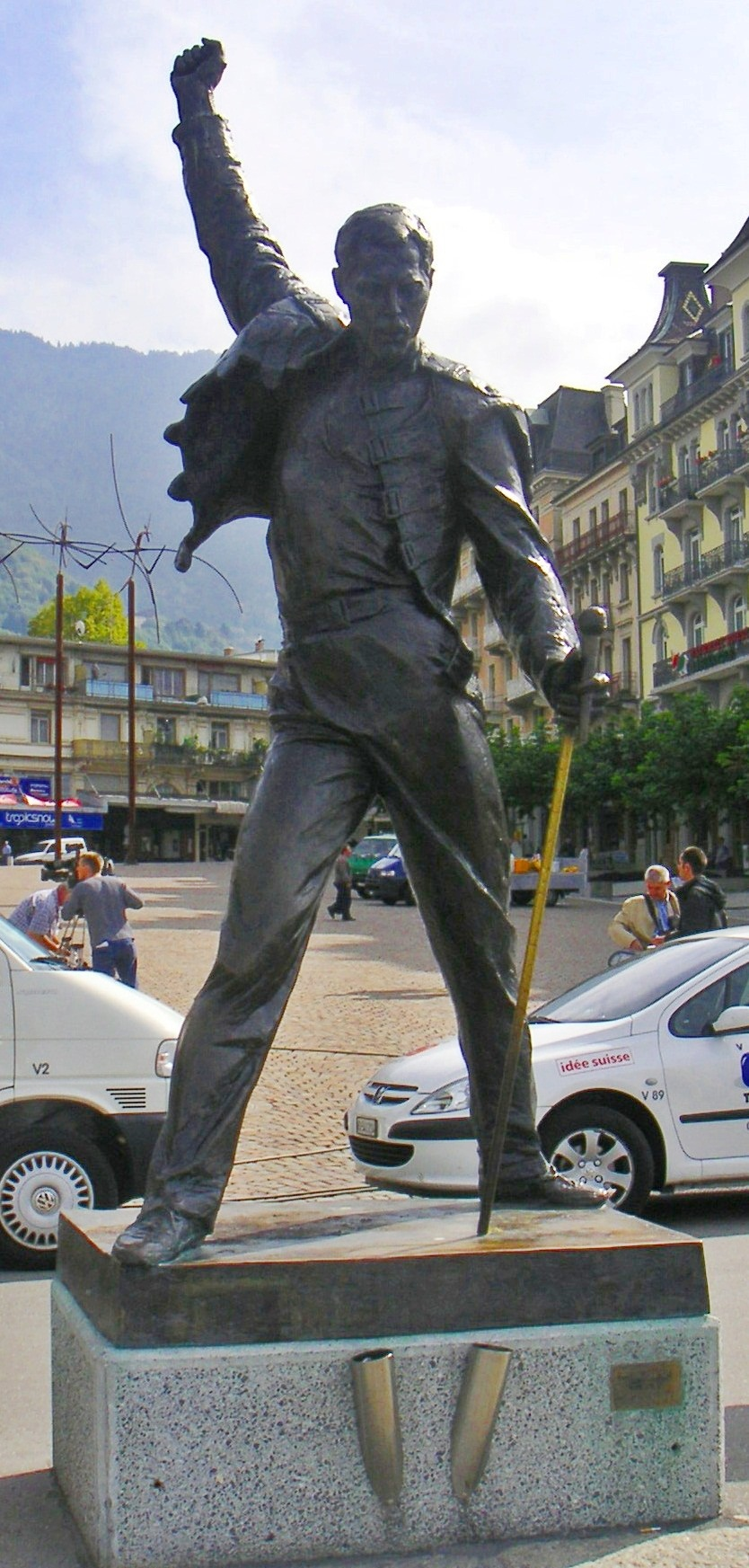 Freddie Mercury statue in Montreux, sculpted by Irena Sedlecká in 1996